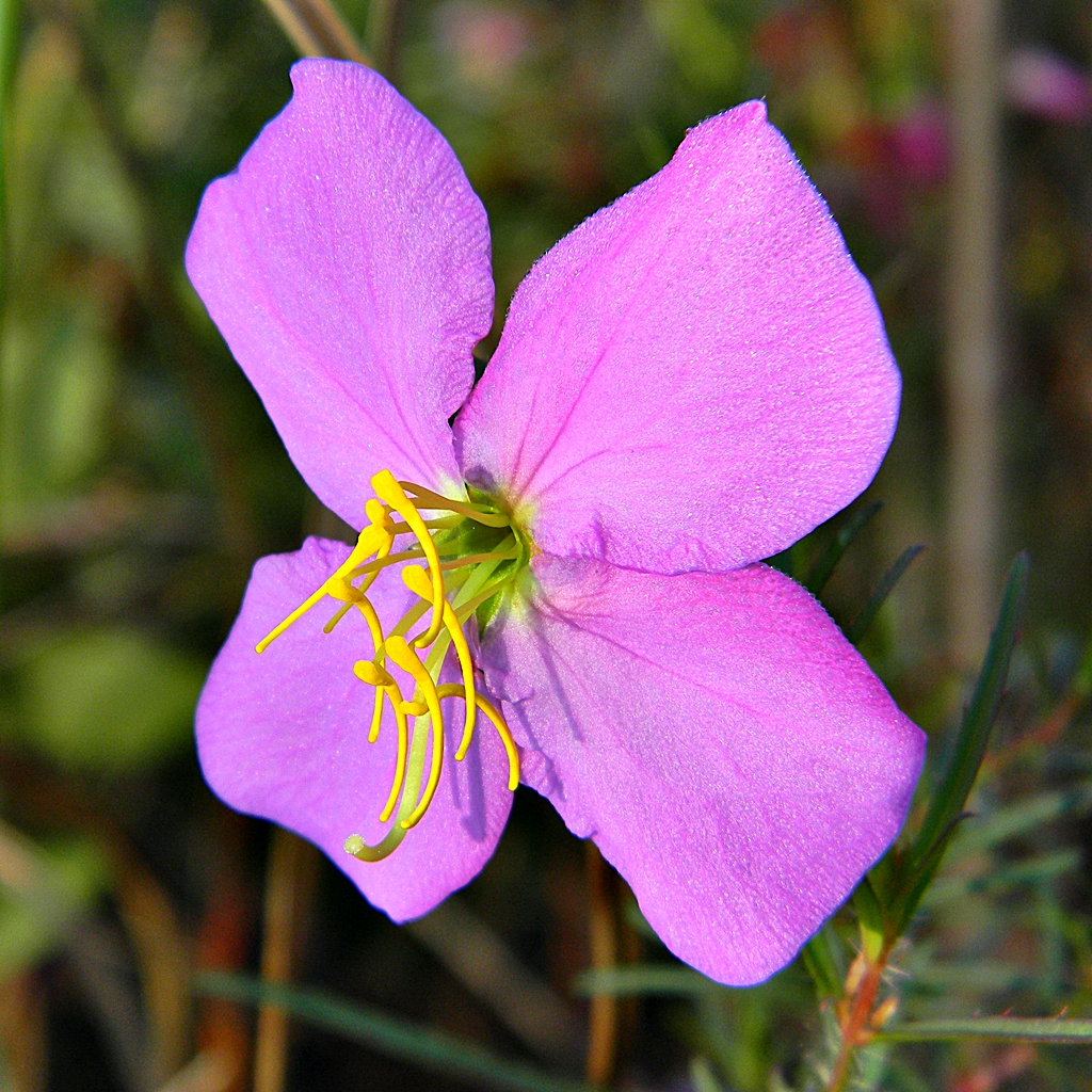 Pale Meadowbeauty (Rhexia mariana L.) gazing into the early morning sunshine in pine flatwoods at Sweetbay Natural Area, Palm Beach County, Florida. Creatures love to munch the petals so early is best to see them!